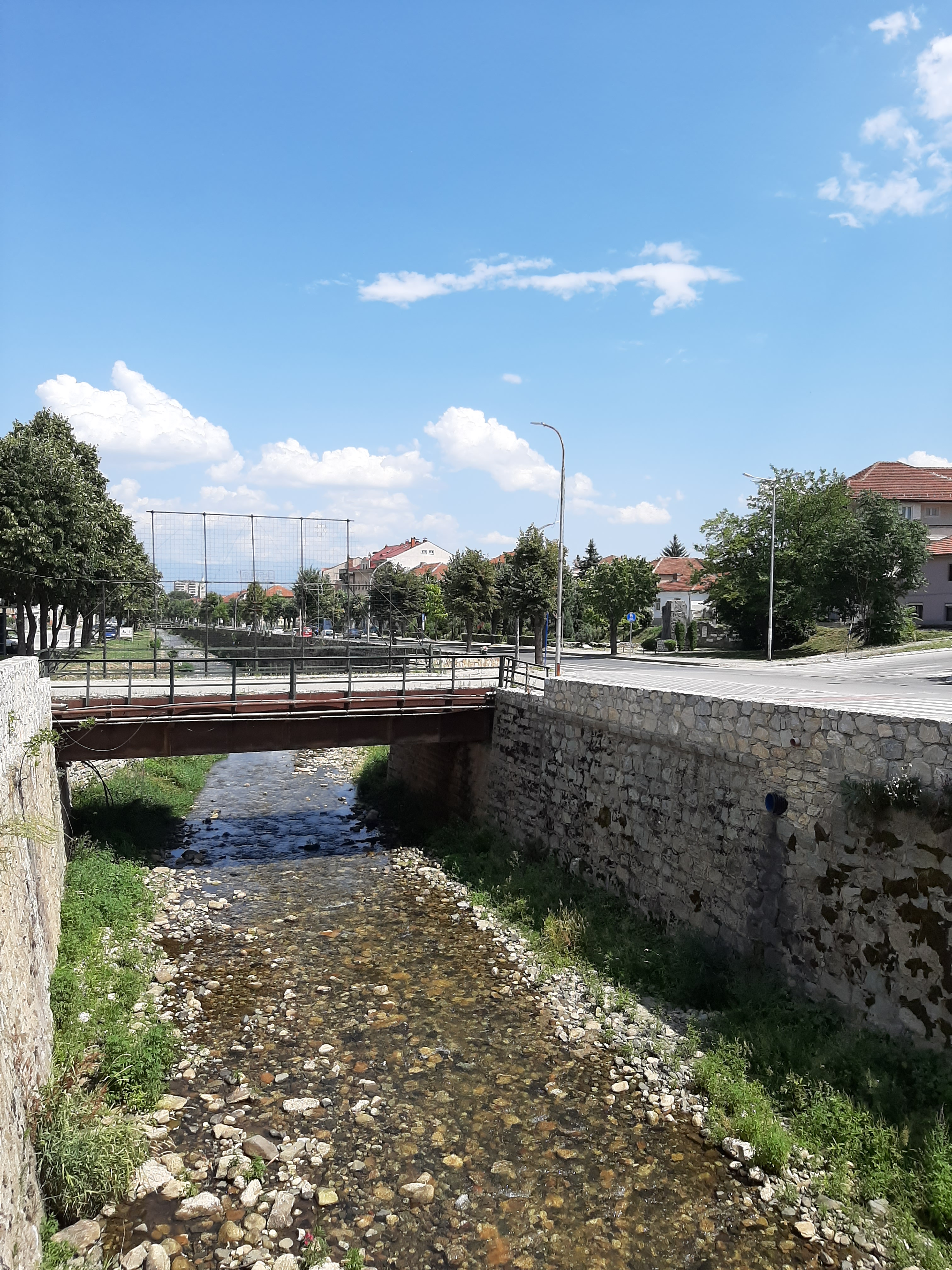 Crn most (Black Bridge) Bitola - a bridge on the river Dragor